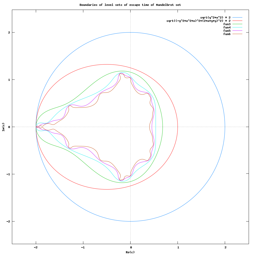 6 lemniscates of Mandelbrot set. Computed using implicit equations.